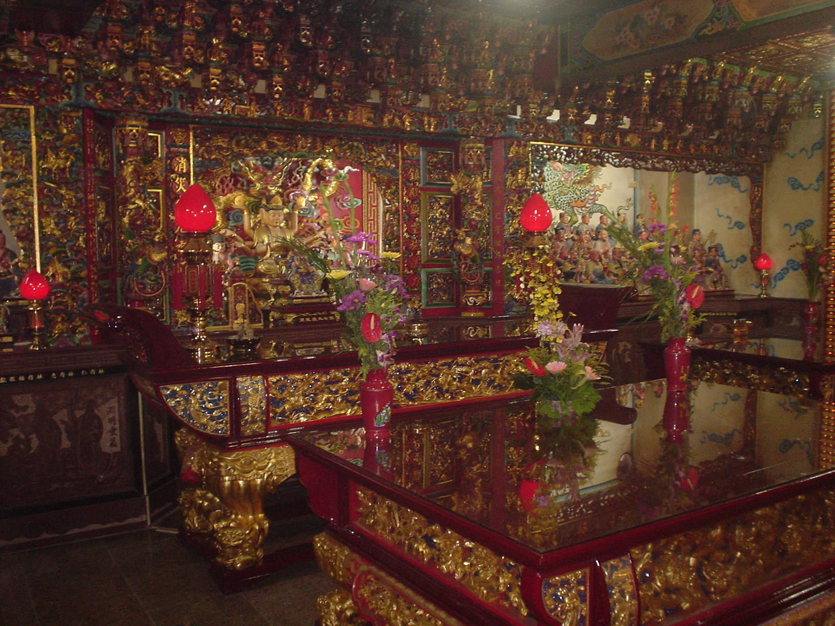 The Lecheng Temple in Taichung City, Taiwan was built during the Qing Dynasty and is a grade 3 historic building as declared by the central government of the R.O.C.